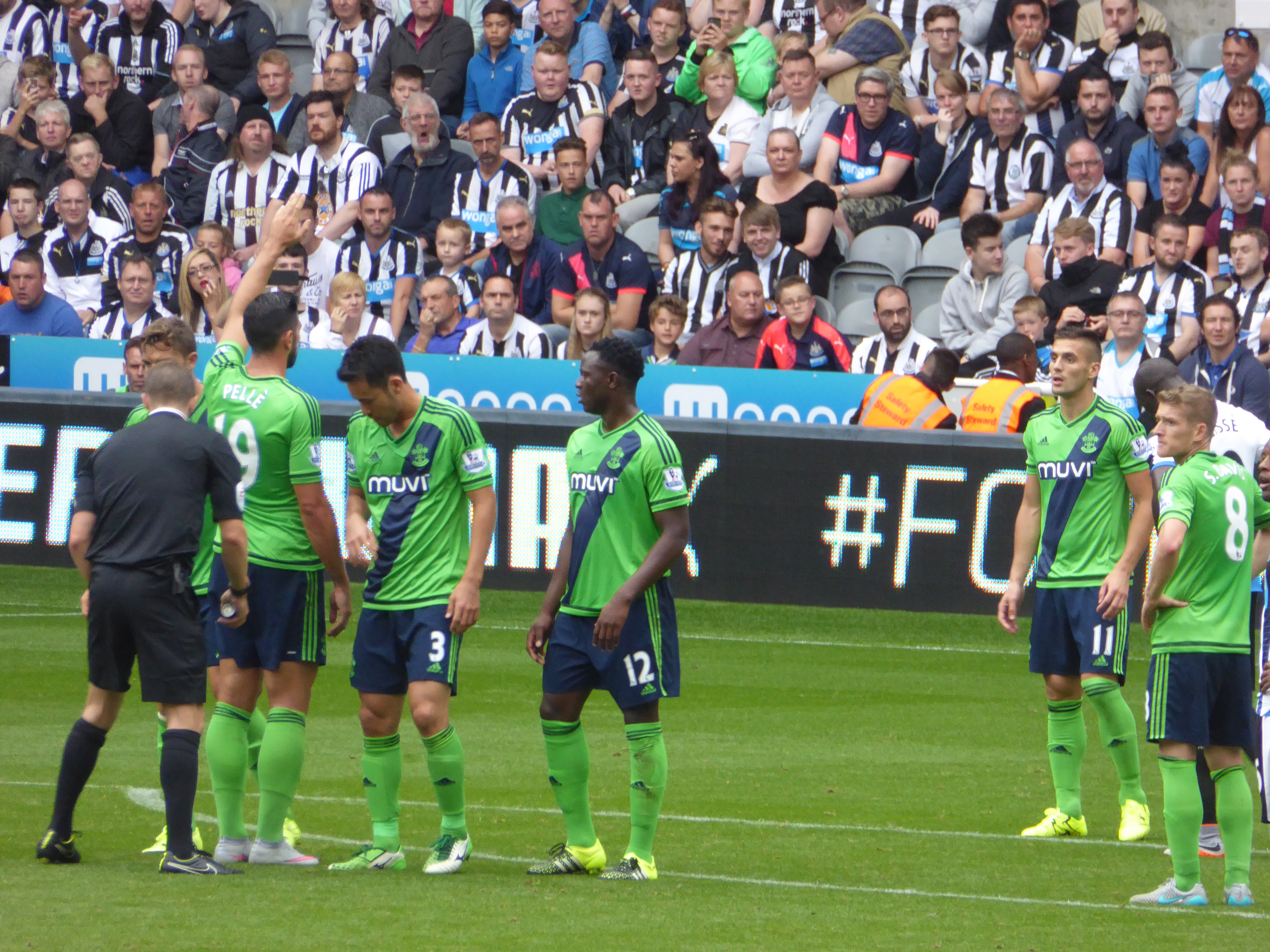 Newcastle United vs Southampton (2-2), St James' Park, Newcastle upon Tyne, Tyne and Wear, England, August 2015